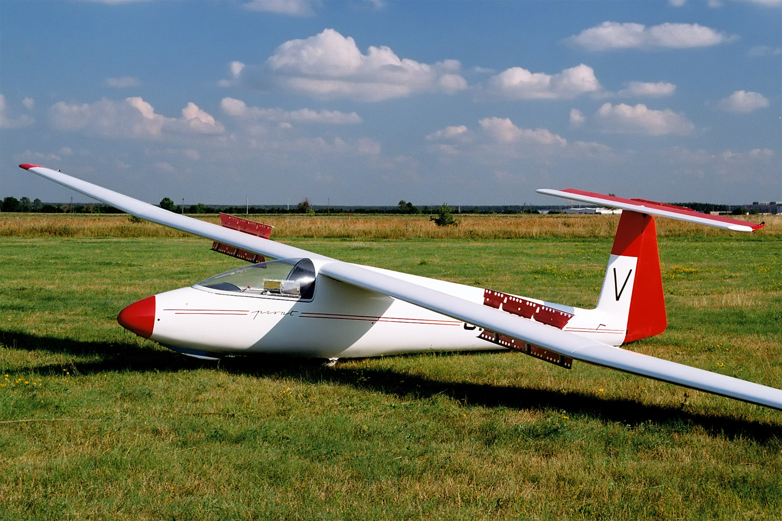 SZD-30 Pirat glider on Aeroklub Suwalski airfield